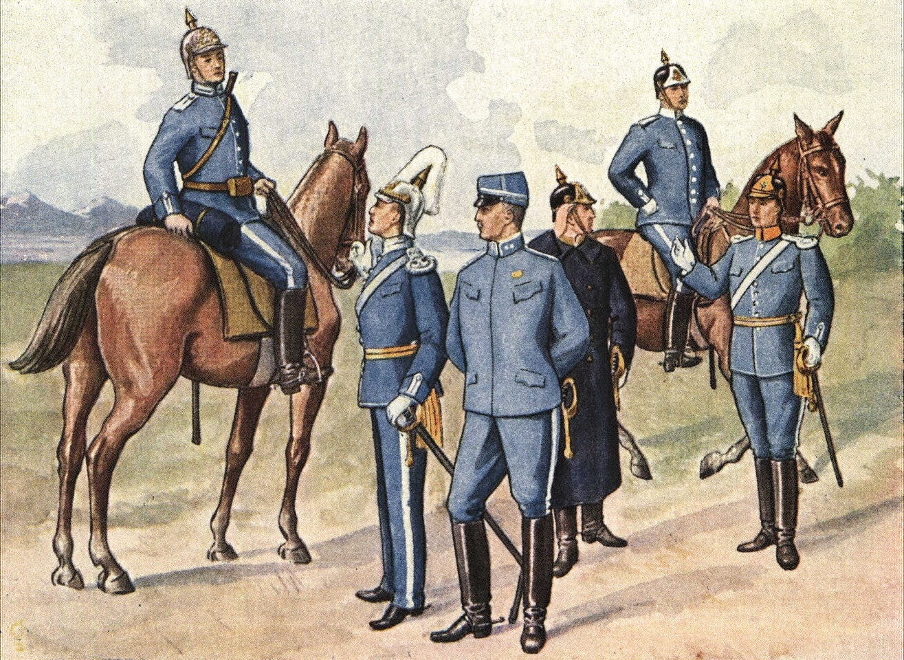 Uniforms of the Swedish army M 1895, Cavalry (Dragoons)